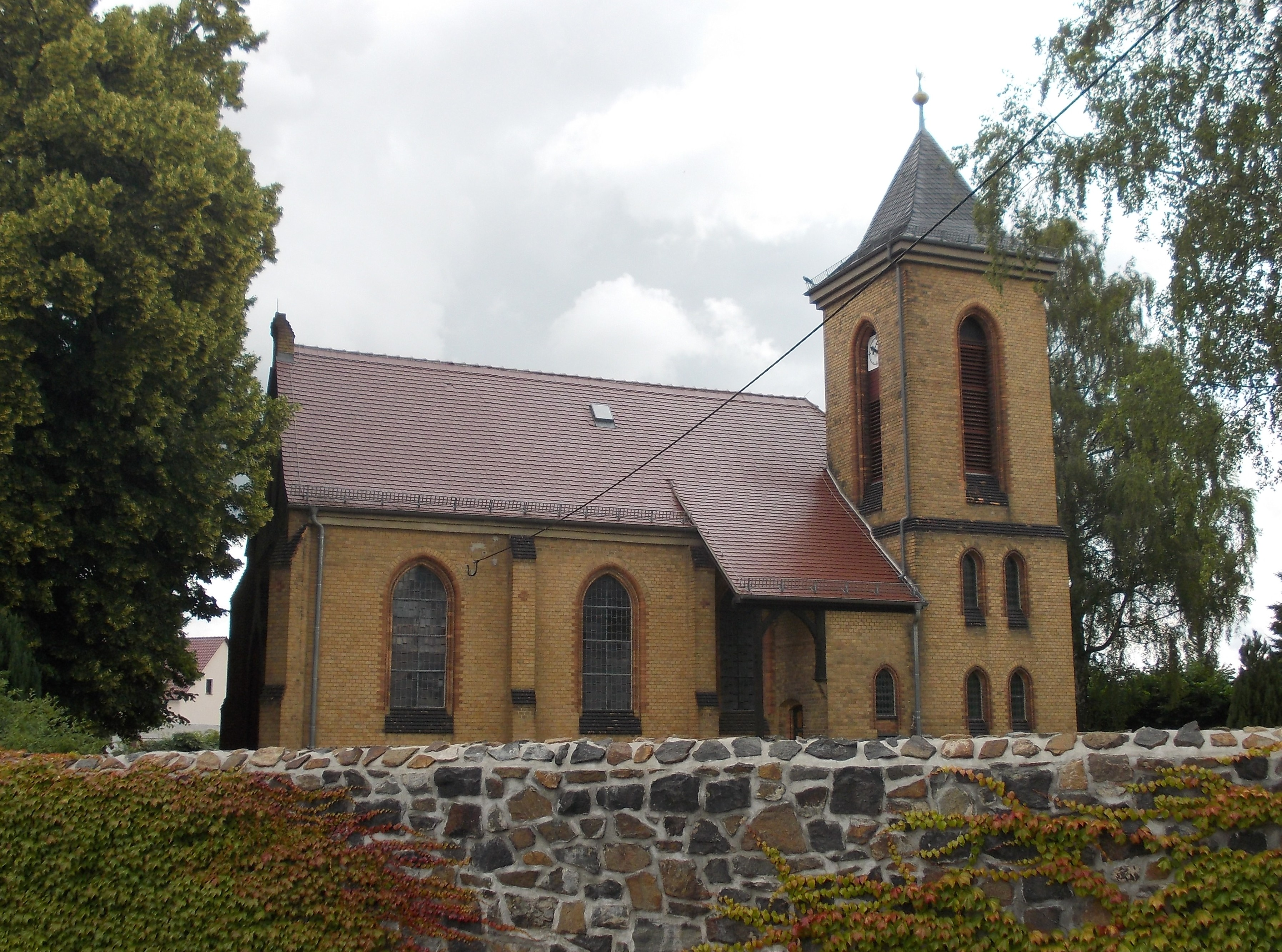 Kirche Beiersdorf (Stadt Grimma)